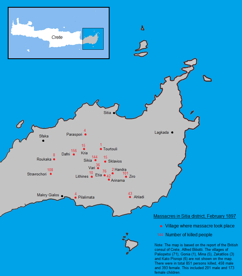 Shows the villages in the Sitia region, in Crete. where massacres ocurred against Muslims by Christians in February 1897. Sources: [1] [2]